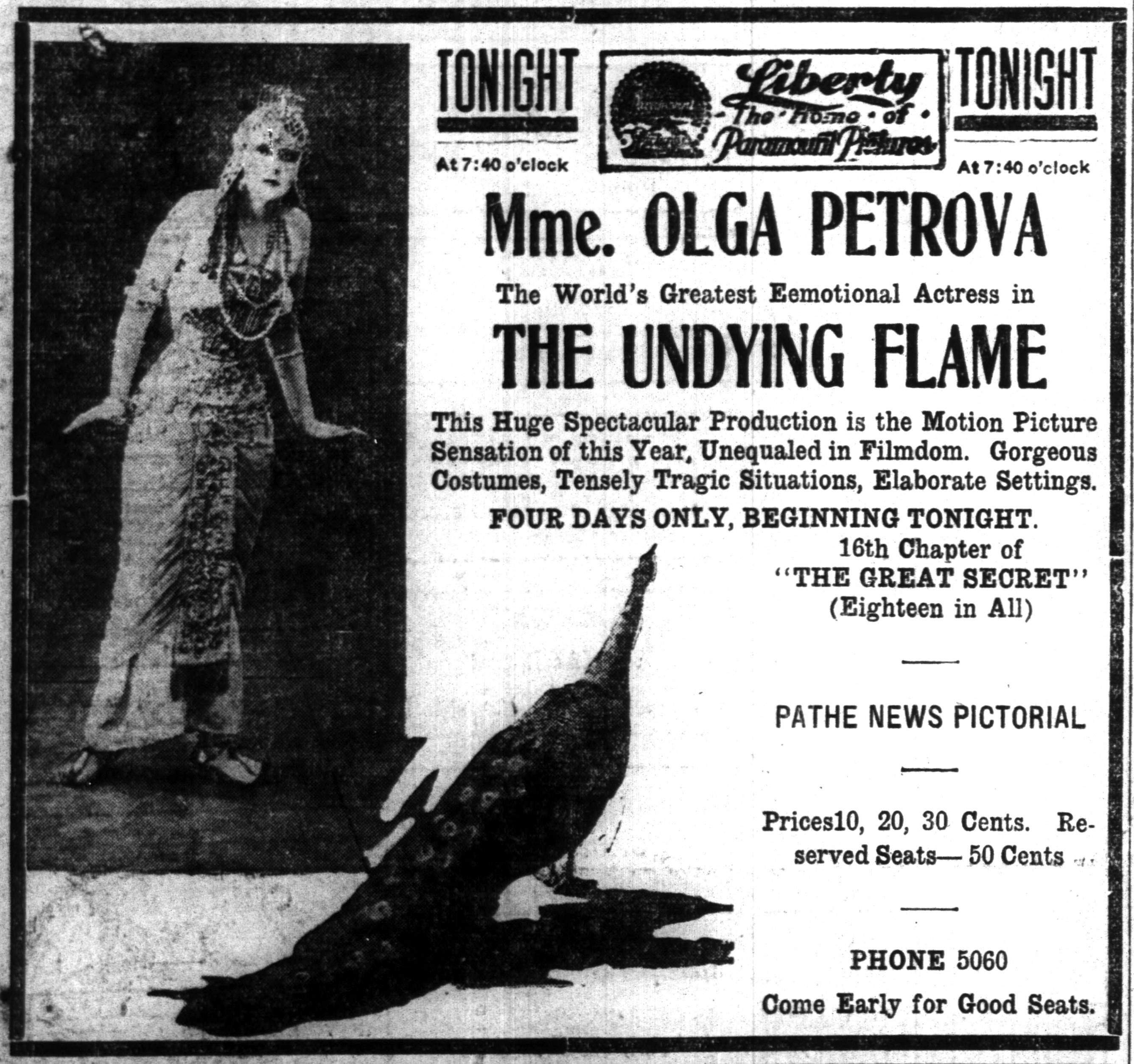 The Undying Flame is a lost 1917 silent film drama directed by Maurice Tourneur, produced by Jesse Lasky and released by Paramount Pictures. This is a newspaper advert for the film.